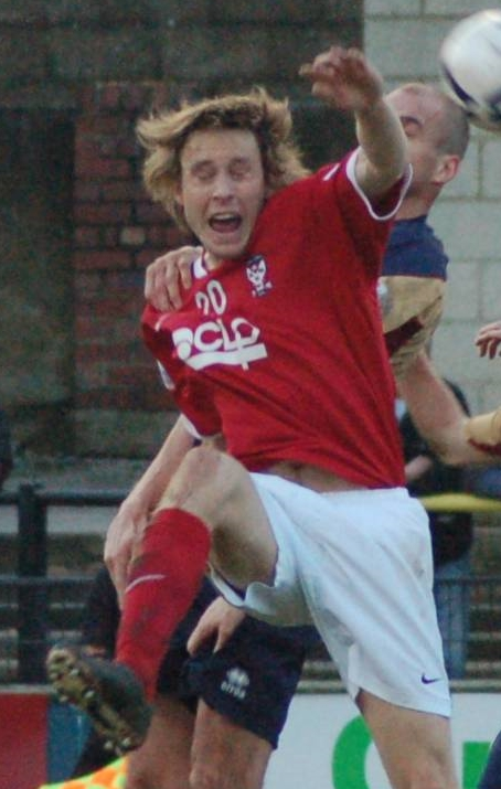 Danny Parslow playing for York City against Weymouth at Bootham Crescent, York on 17 February 2007